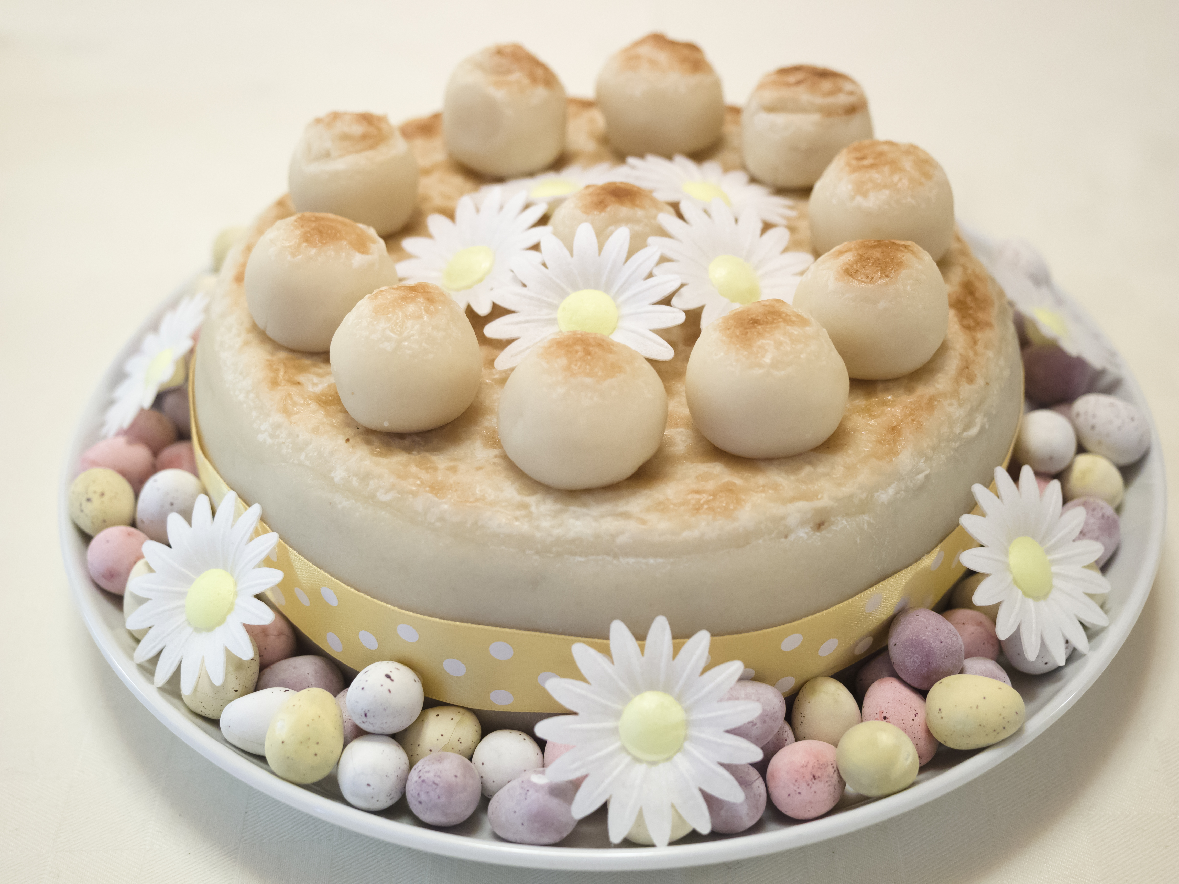 A traditional Easter fruitcake made with marzipan